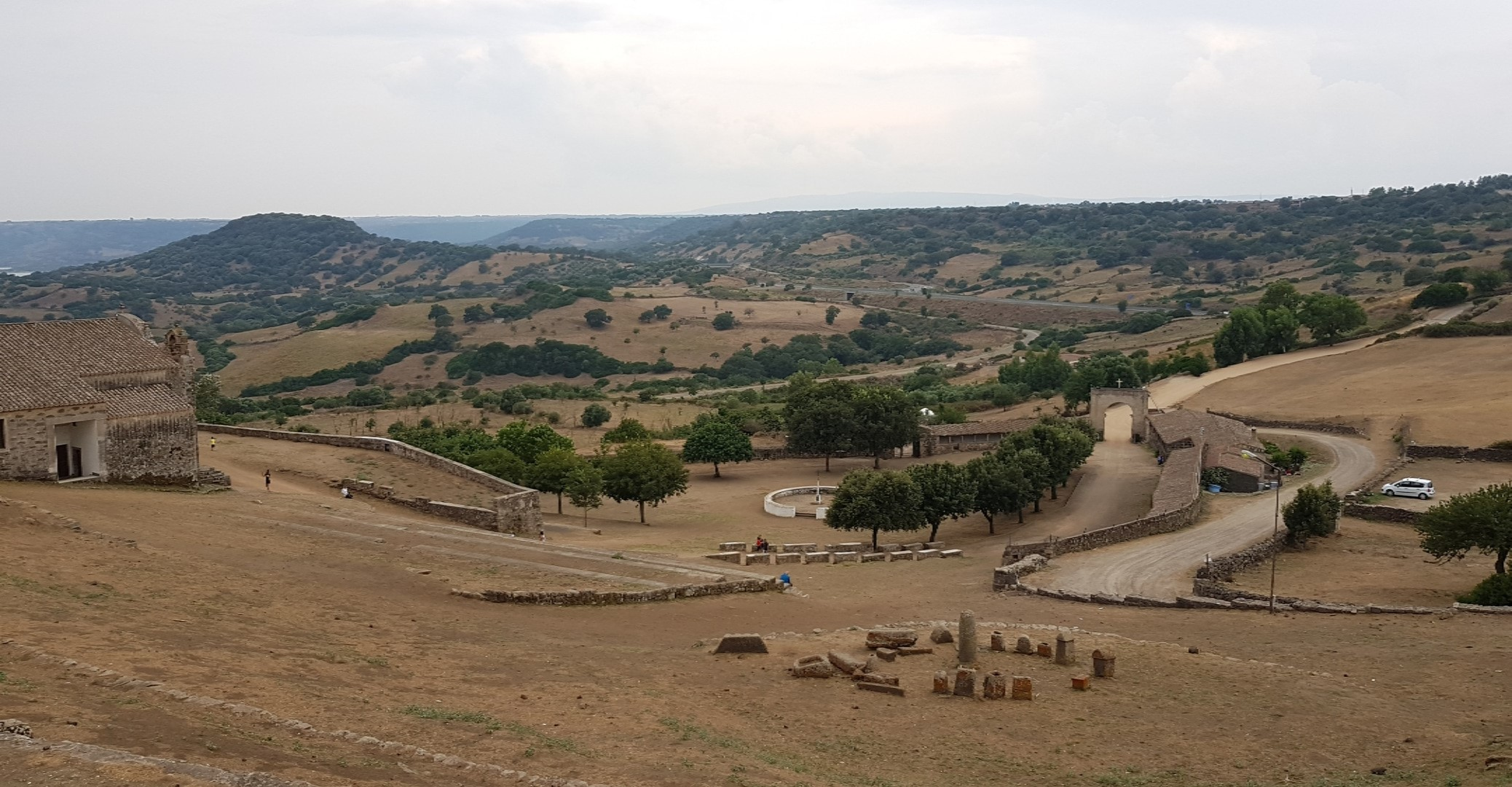 Vista dall'alto verso il basso del Santuario di San Costantino a Sedilo